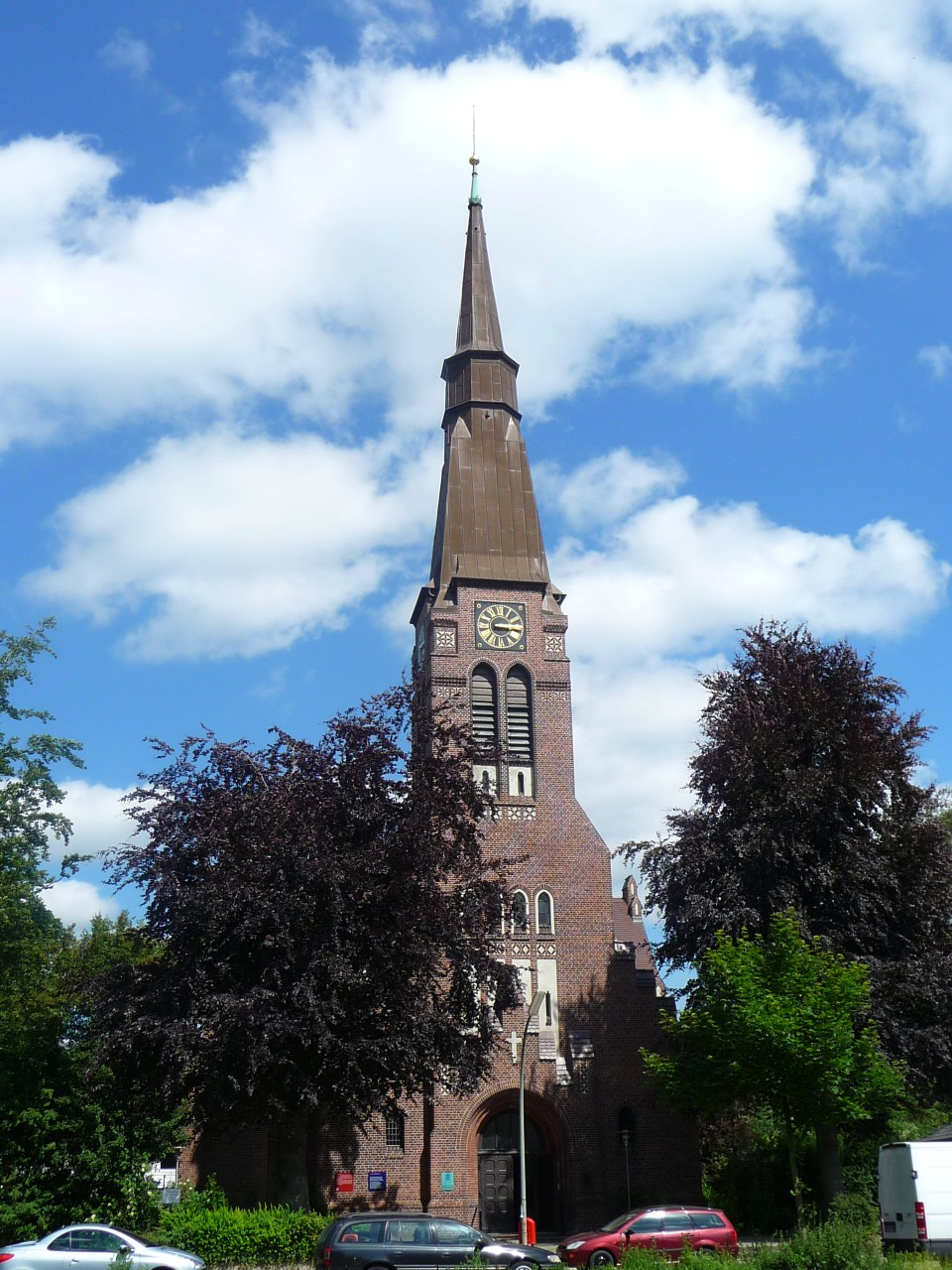 Cross Church in Hamburg-Wandsbek